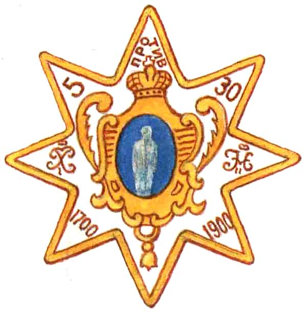 Badge of Kievsky 5-th Grenadier Regiment